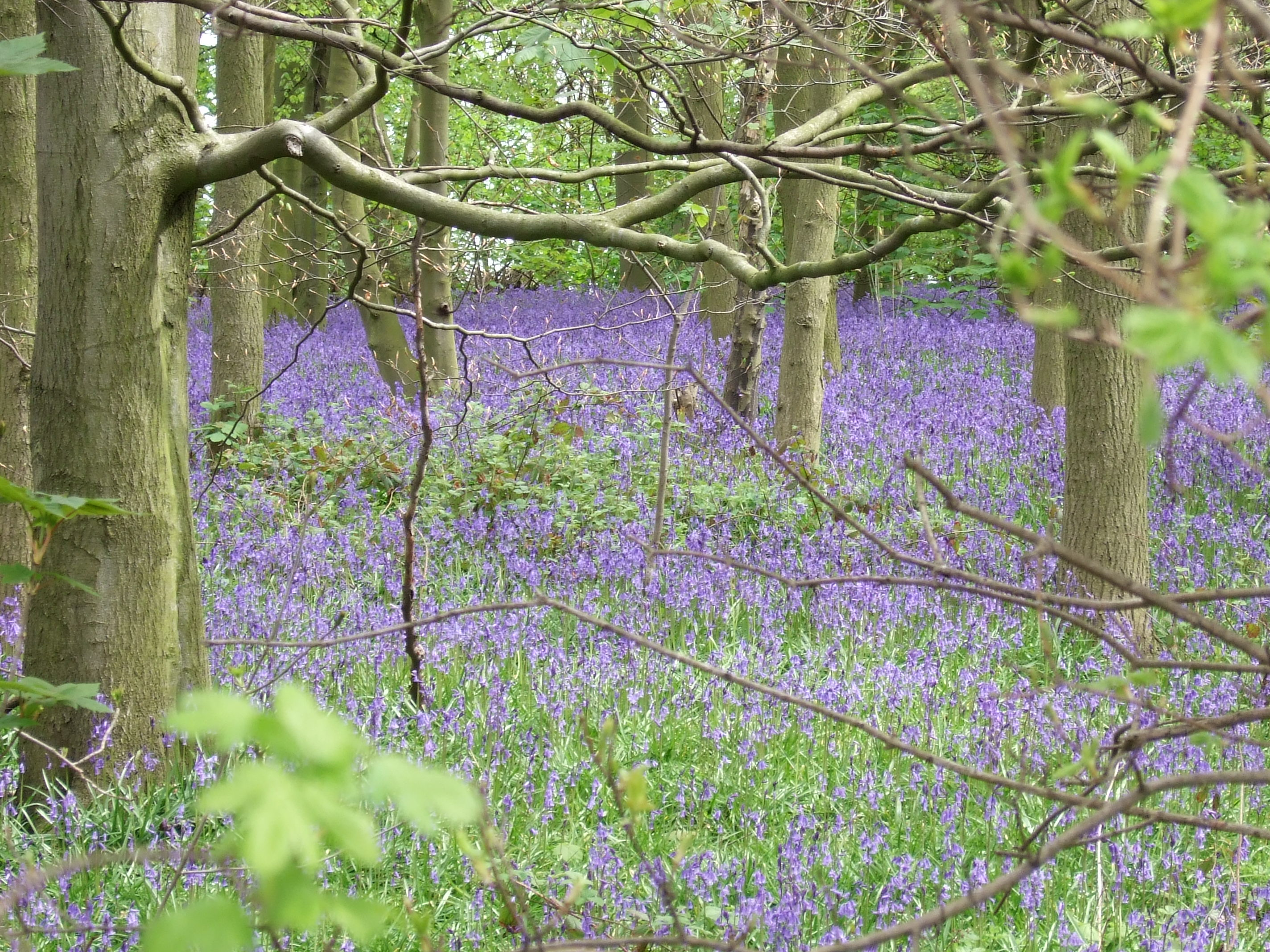 Bluebells in Colonel's Covert, East Leake, South Nottinghamshire, England. coord. 52.81459N 1.18986W